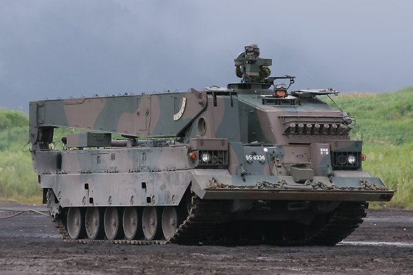 JGSDF Type 90 ARV.